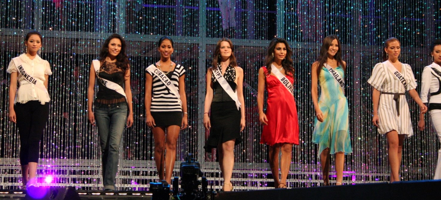 Contestants during rehearsals for the Miss Universe 2007 pageant in Mexico City, Mexico